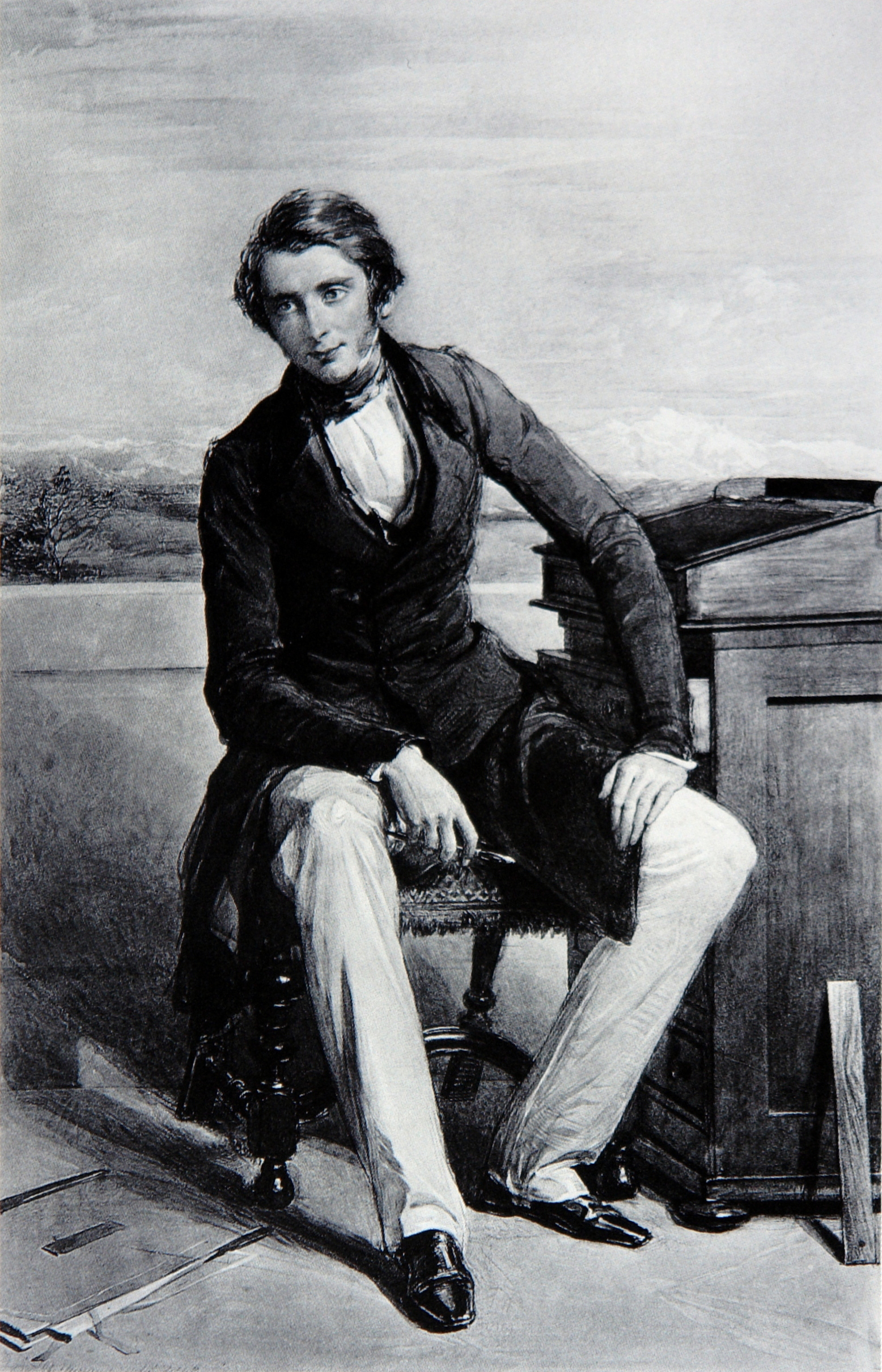 Photogravure of a lost watercolour that was first exhibited at the Royal Academy in 1843 as John Rusken, after George Richmond (1809 — 1896). Published in Magazine of Art, January 1891, as "The Author of Modern Painters", image size: 47.2 x 30.2 cm, plate size: 59.7 x 39.2 cm, sheet size: 72.5 x 50.8 cm